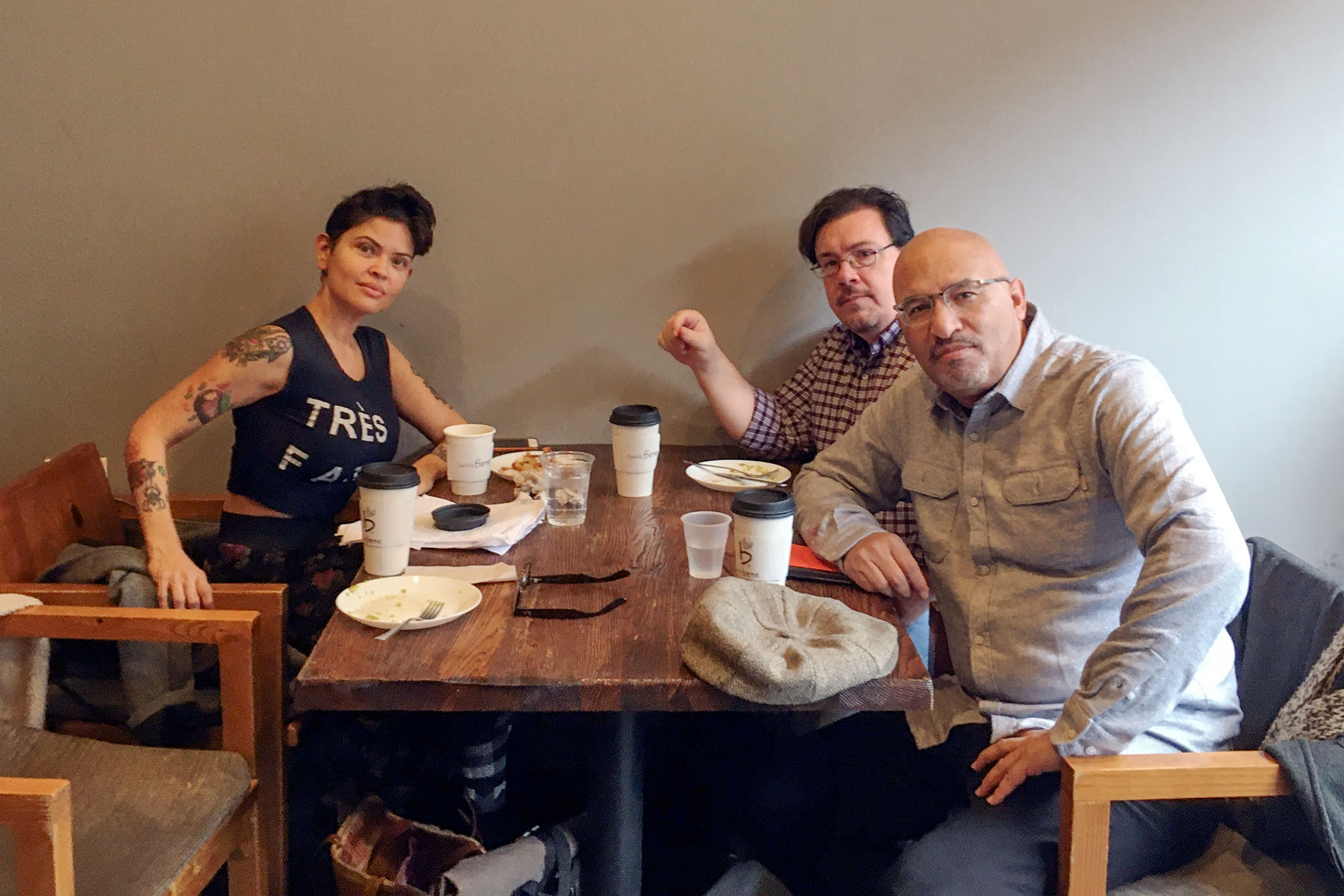 Dignidad Literaria founders Myriam Gurba, David Bowles and Roberto Lovato meeting in New York City, Jan 2020